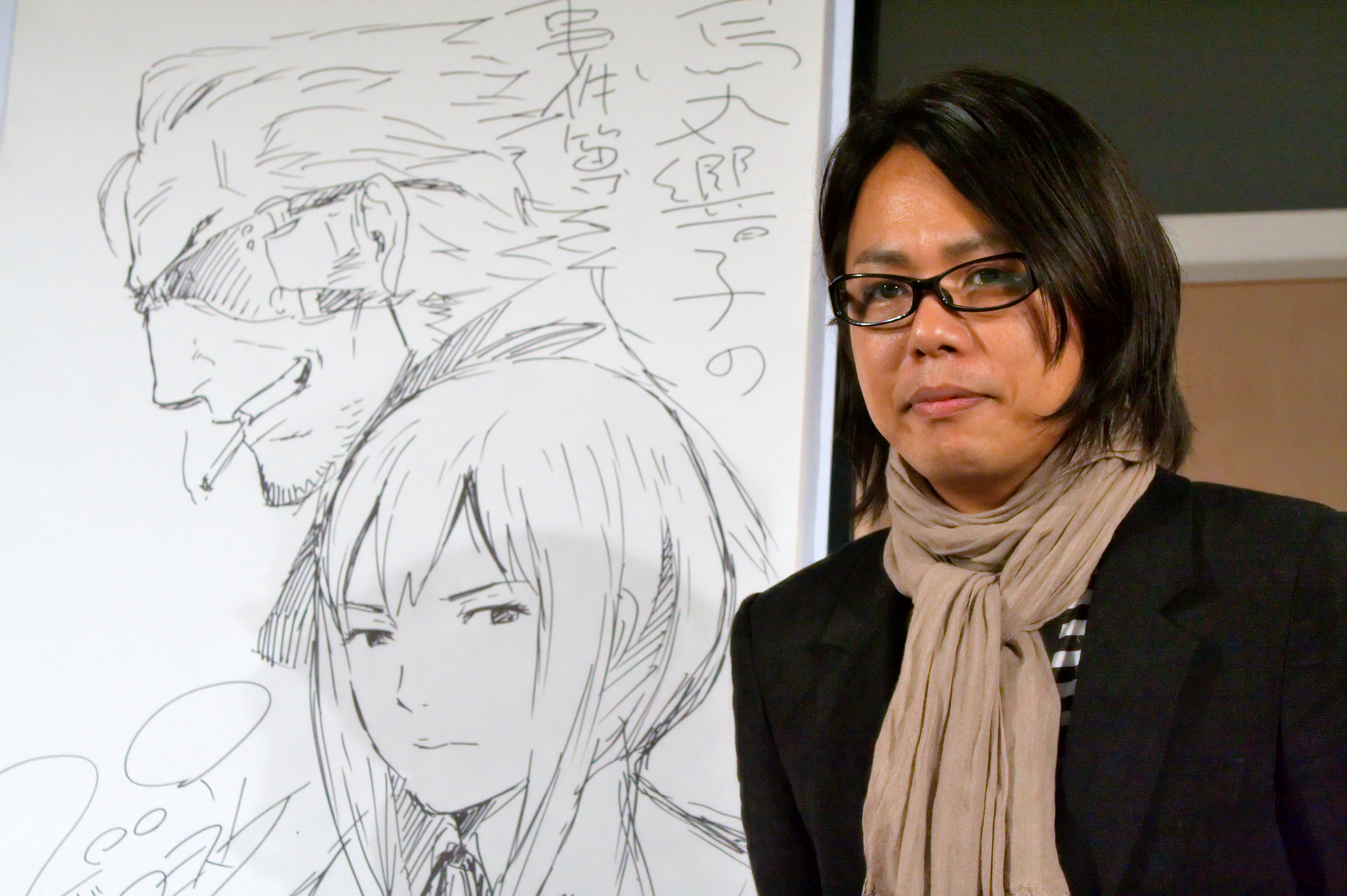 Master class with Yûsuke Kozaki at Chibi Japan Expo 2009 (Paris, France)